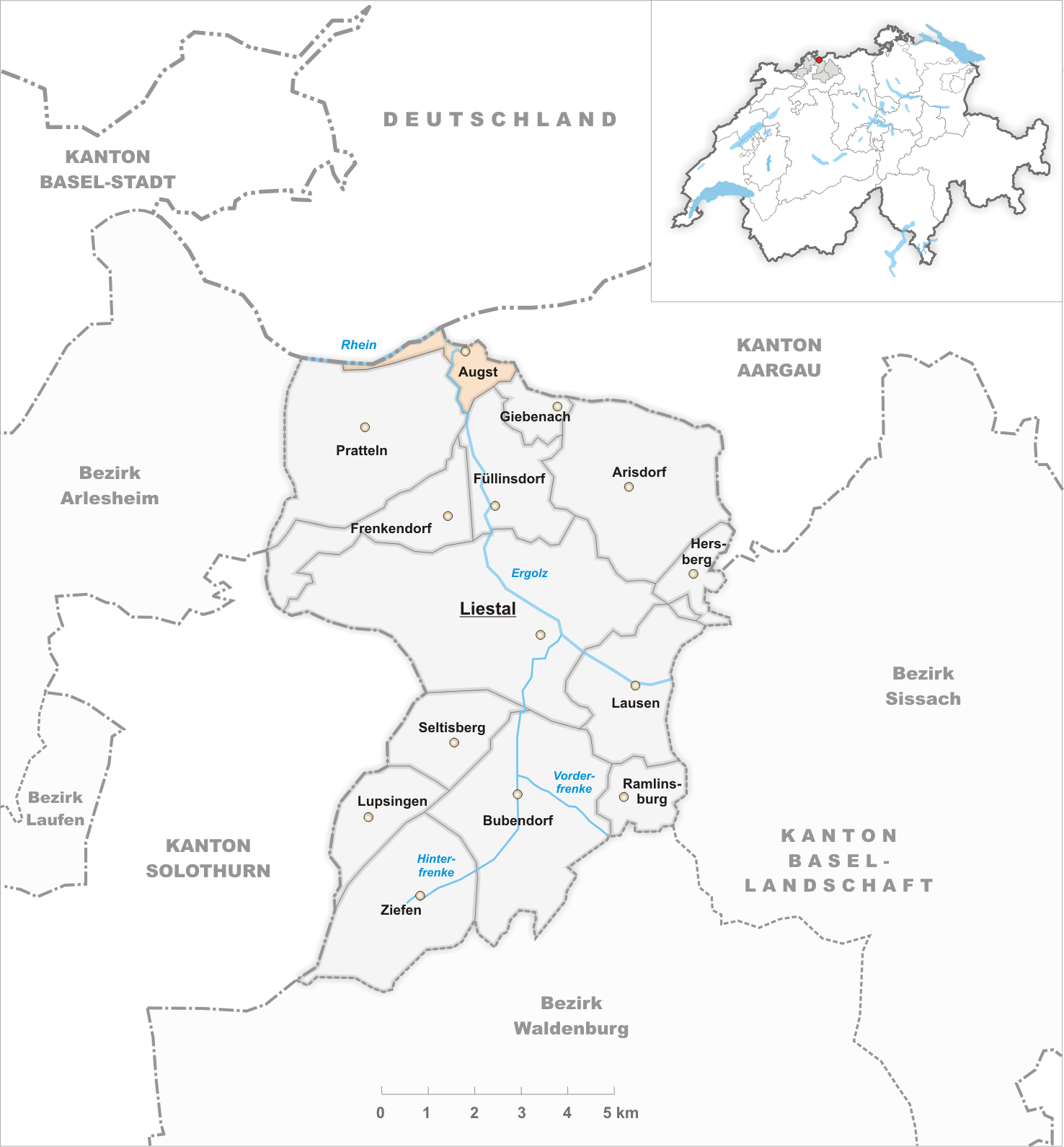 Municipality Augst